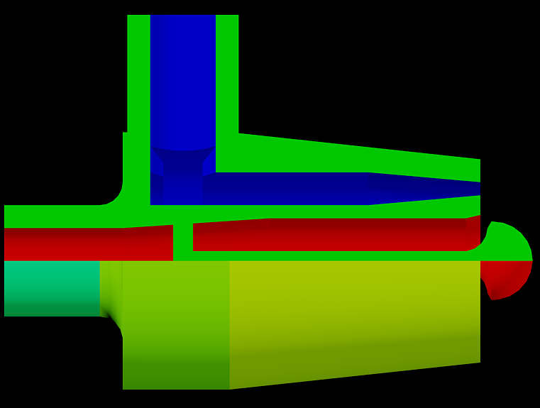 Pintle injector, CAD render. Top view.